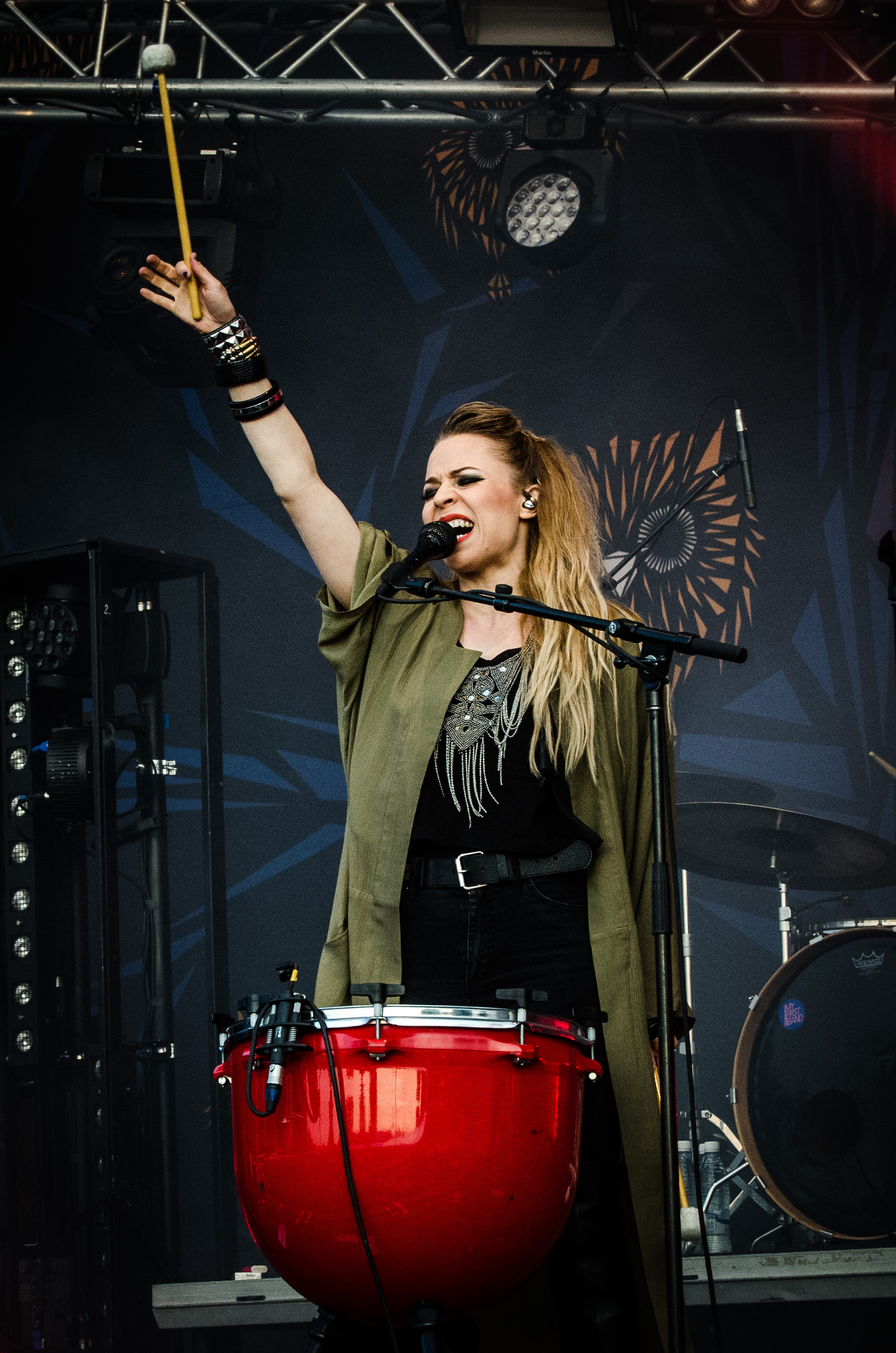 PMMP performing at Lappeenrannan Yöt 2013